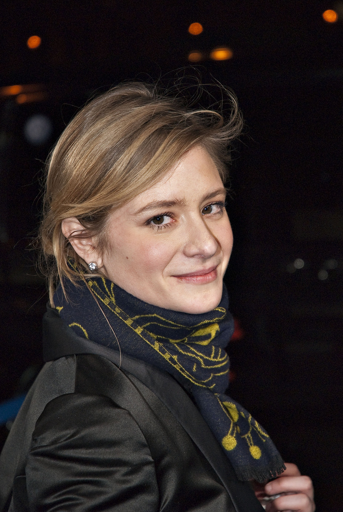 Julia Jentsch, German actress Volkswagen People’s Night 2008